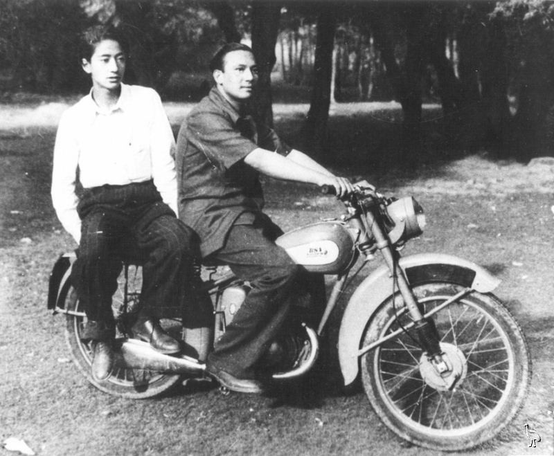 Nepalese merchants Kamal Man Tuladhar (left) and Karuna Ratna Tuladhar on a BSA D1 Bantam motorcycle in Lhasa, Tibet, about 1952